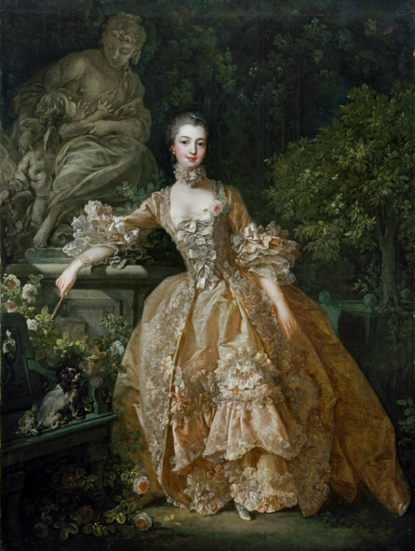 François Boucher - Portrait of Marquise de Pompadour (colours slightly adjusted)